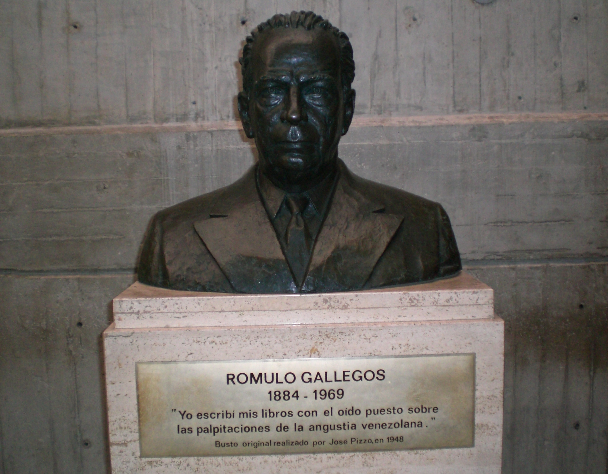 Sculpture of Rómulo Gallegos at the Celarg, Caracas, Venezuela